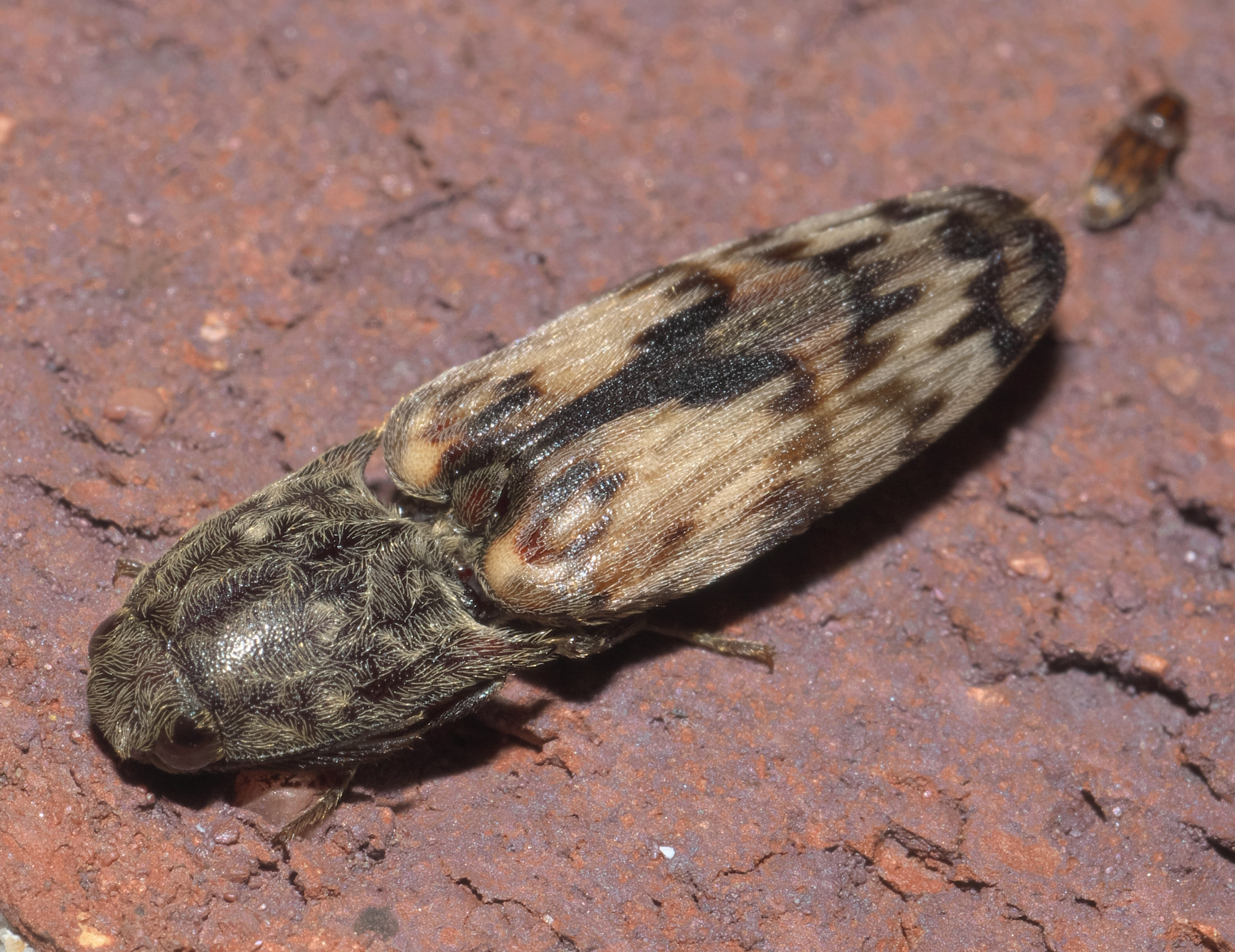 Pherhimius fascicularis, Family: Click Beetles, ID Confidence: 87